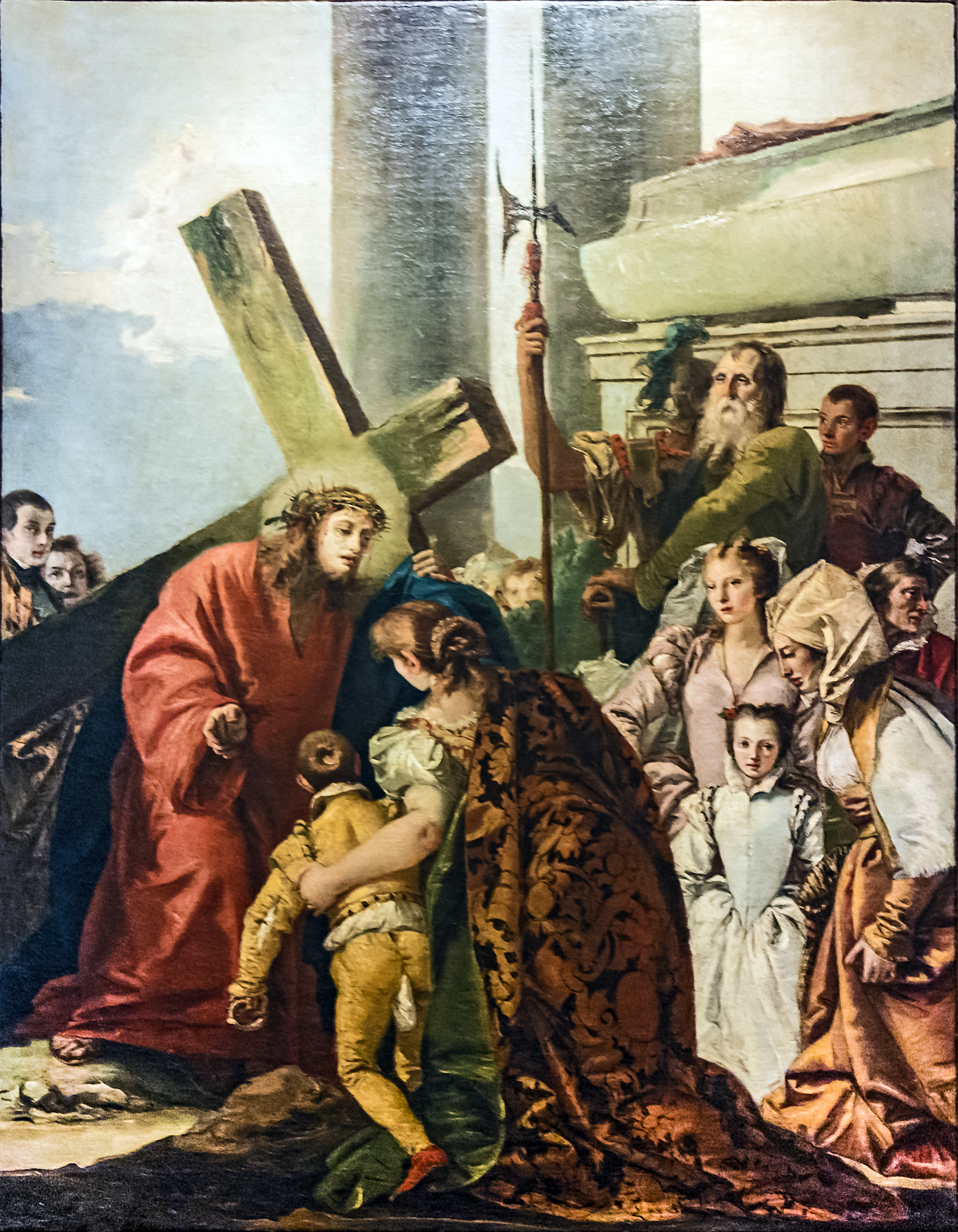 San Polo (church) - Oratory of the Crucifix - VIA CRUCIS VIII - Jesus meets the women of Jerusalem who weep by Giandomenico Tiepolo. Oil on canvas (1745 -1749).